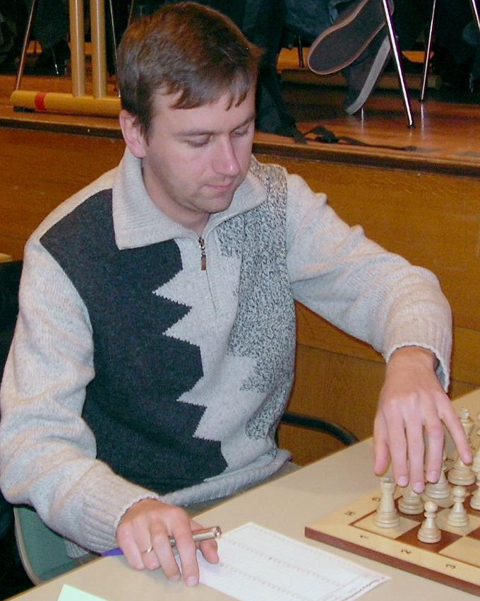 Alexander Zubarev, Chess Open 2011 at Bad Wörishofen.